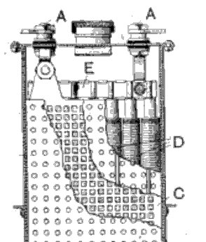 Morrison Storage Battery (partial section drawing)